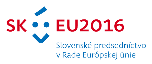 Logo of the Slovak presidency of the Council of the European Union in 2016